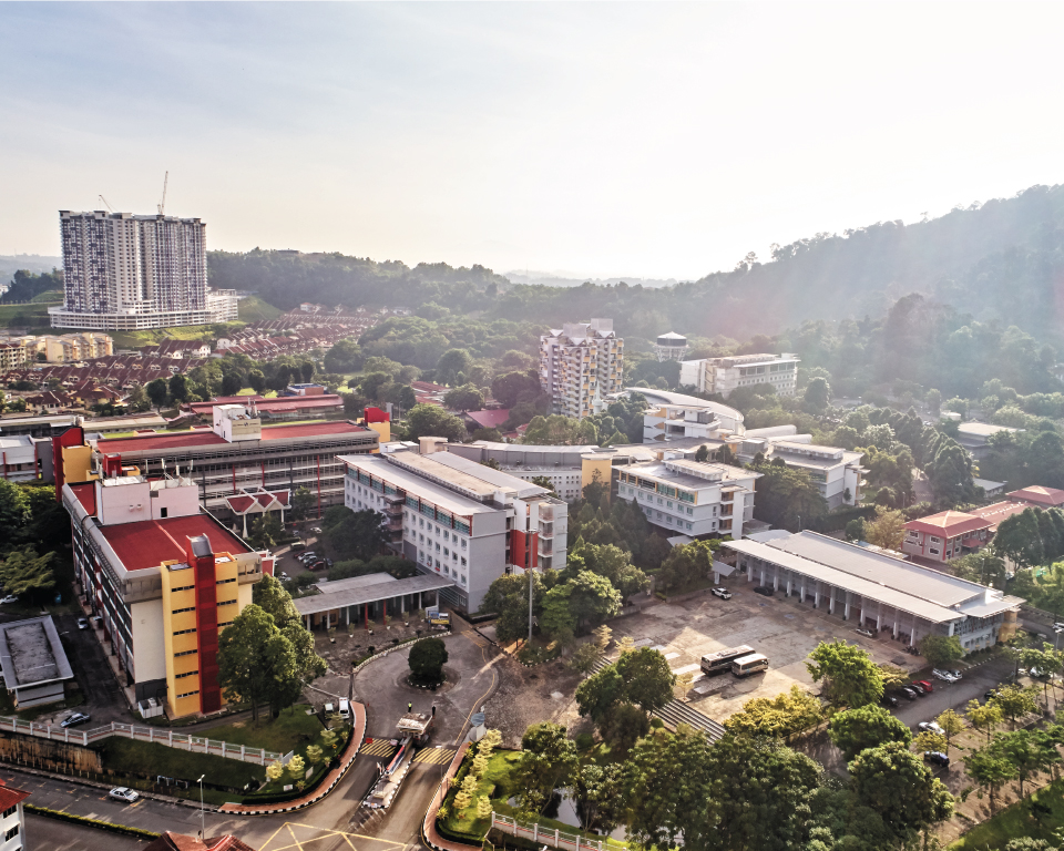 Аҧсшәа: Multimedia University